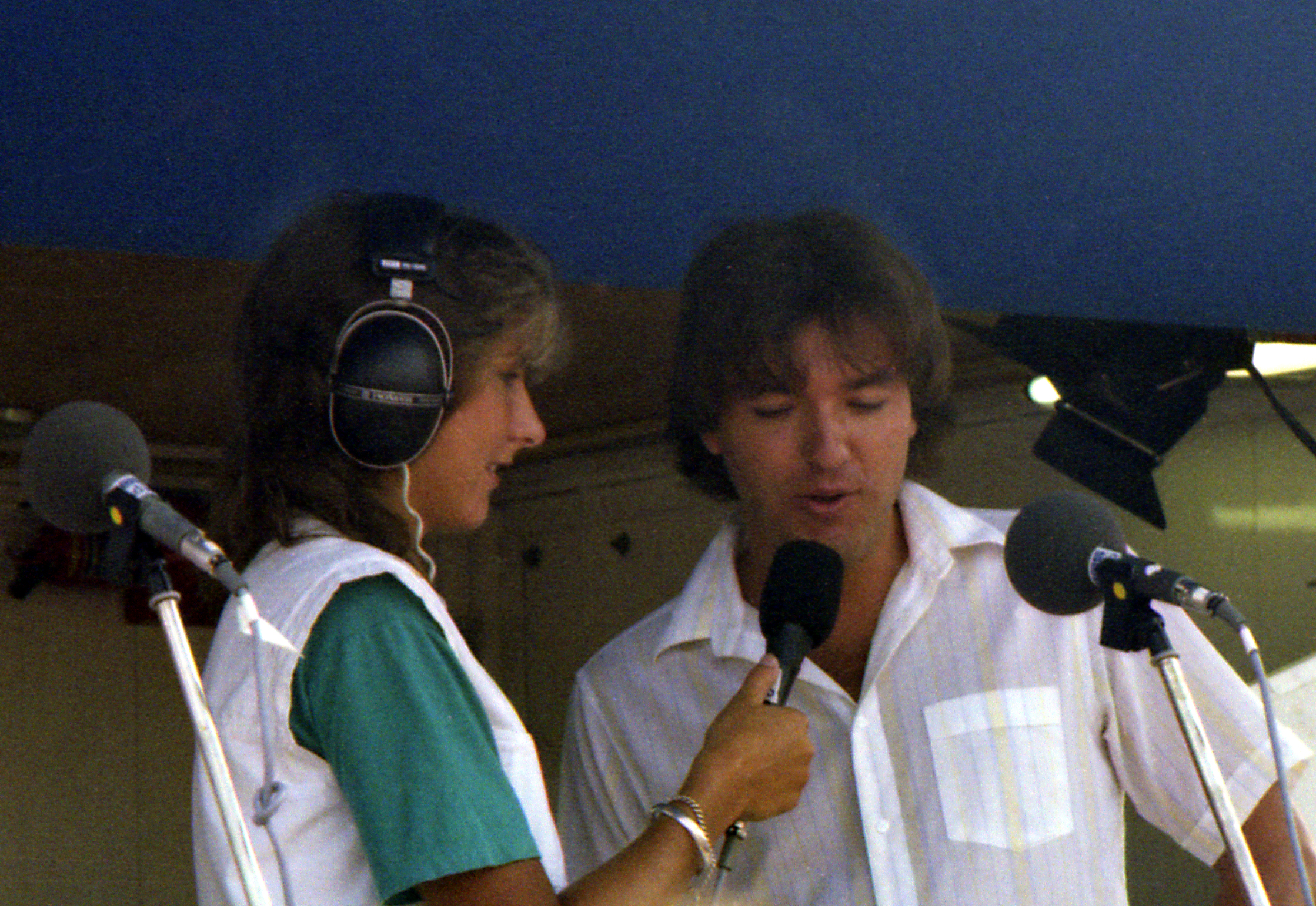 Annette van Trigt (1956) is a Dutch radio- and television presenter